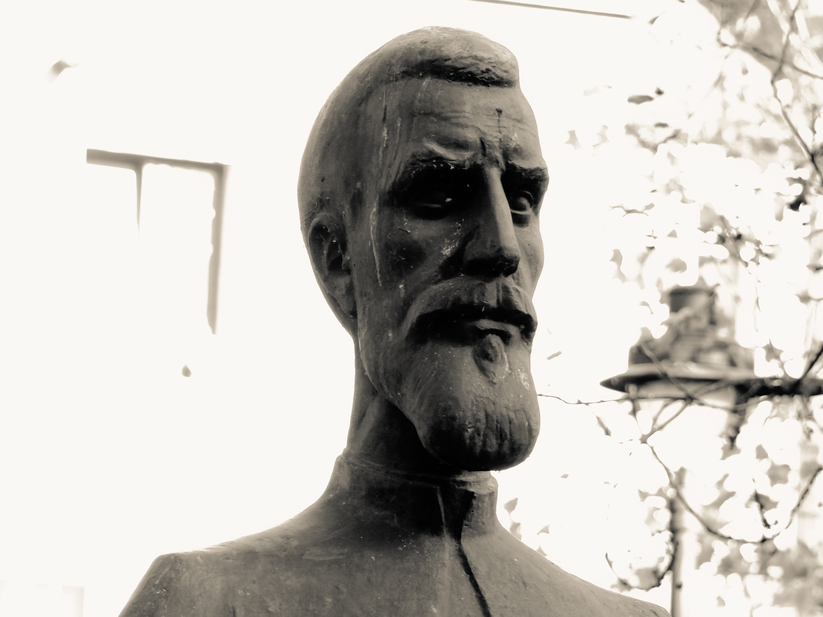 Timotei Cipariu